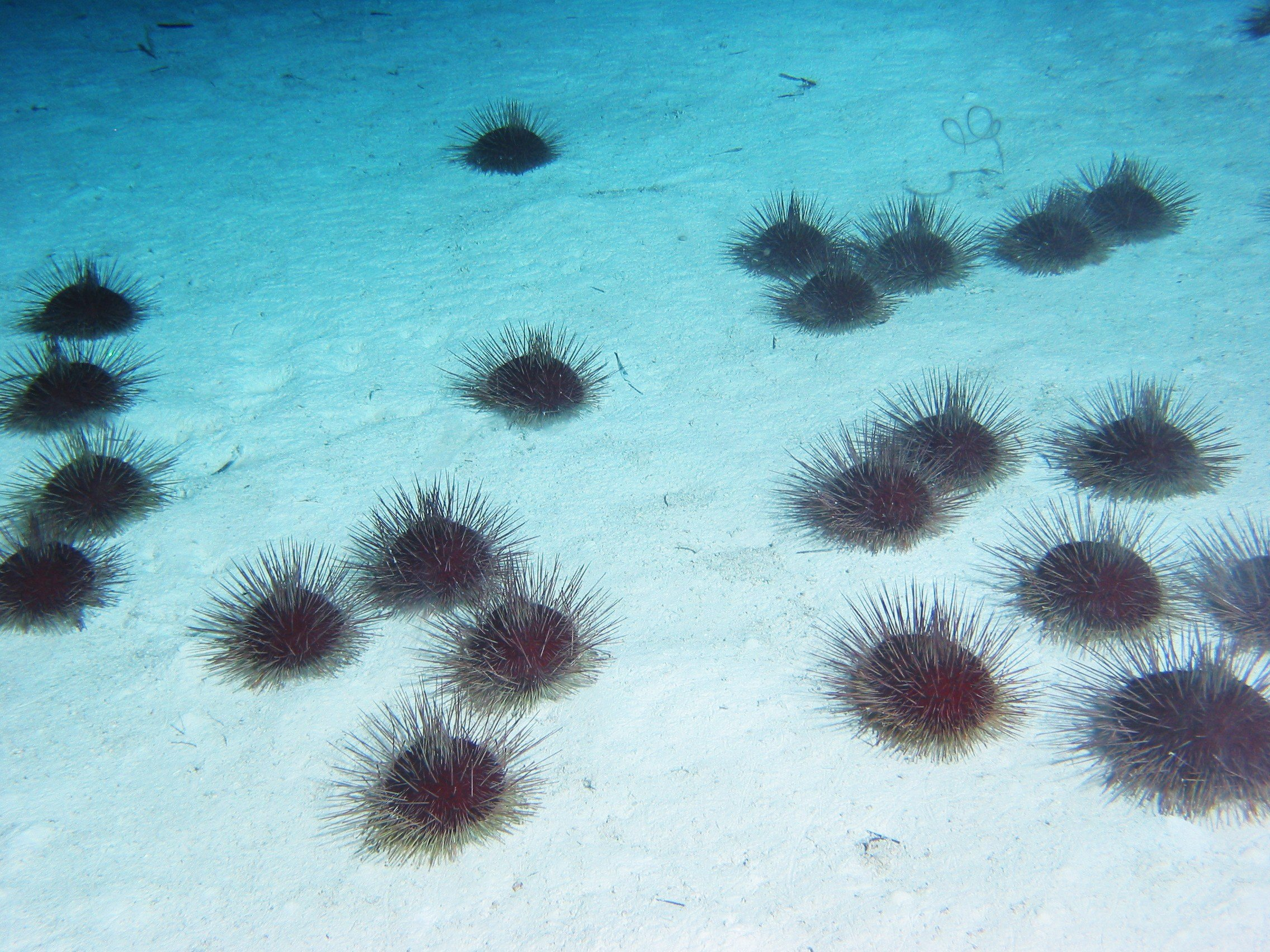 Heterobrissus hystrix Bahamas Islands, West side Little Bahamas Bank